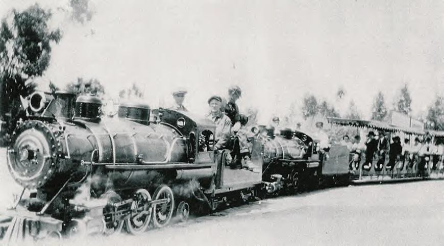 Venice Miniature Railway - Double-header with locomotive No 2 (2-Spot) in front and No1 (1-Spot) directly behind